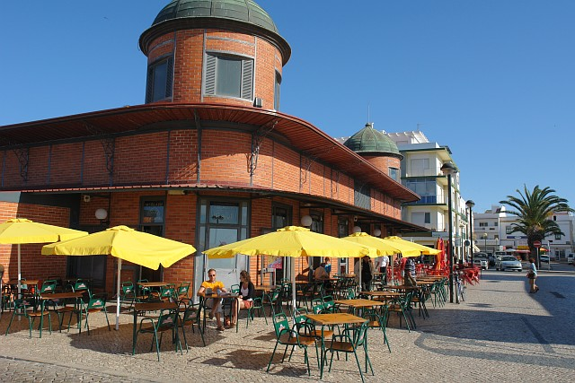 The municipal market in the town of Olhão, Algarve, Portugal